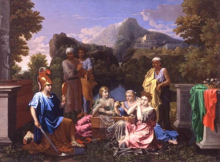 Achilles amongst the Daughters of Lycomedes